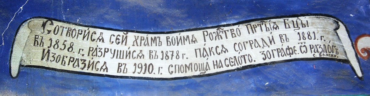 The donor inscription in the Nativity of Mary Church in Velyushtets